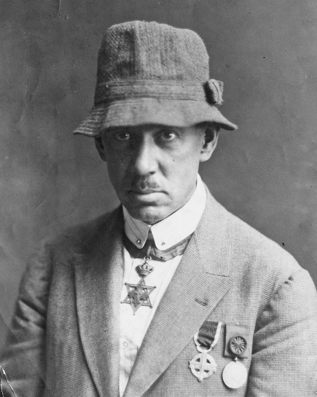 George Prokopiou the-Painter Athens 1924